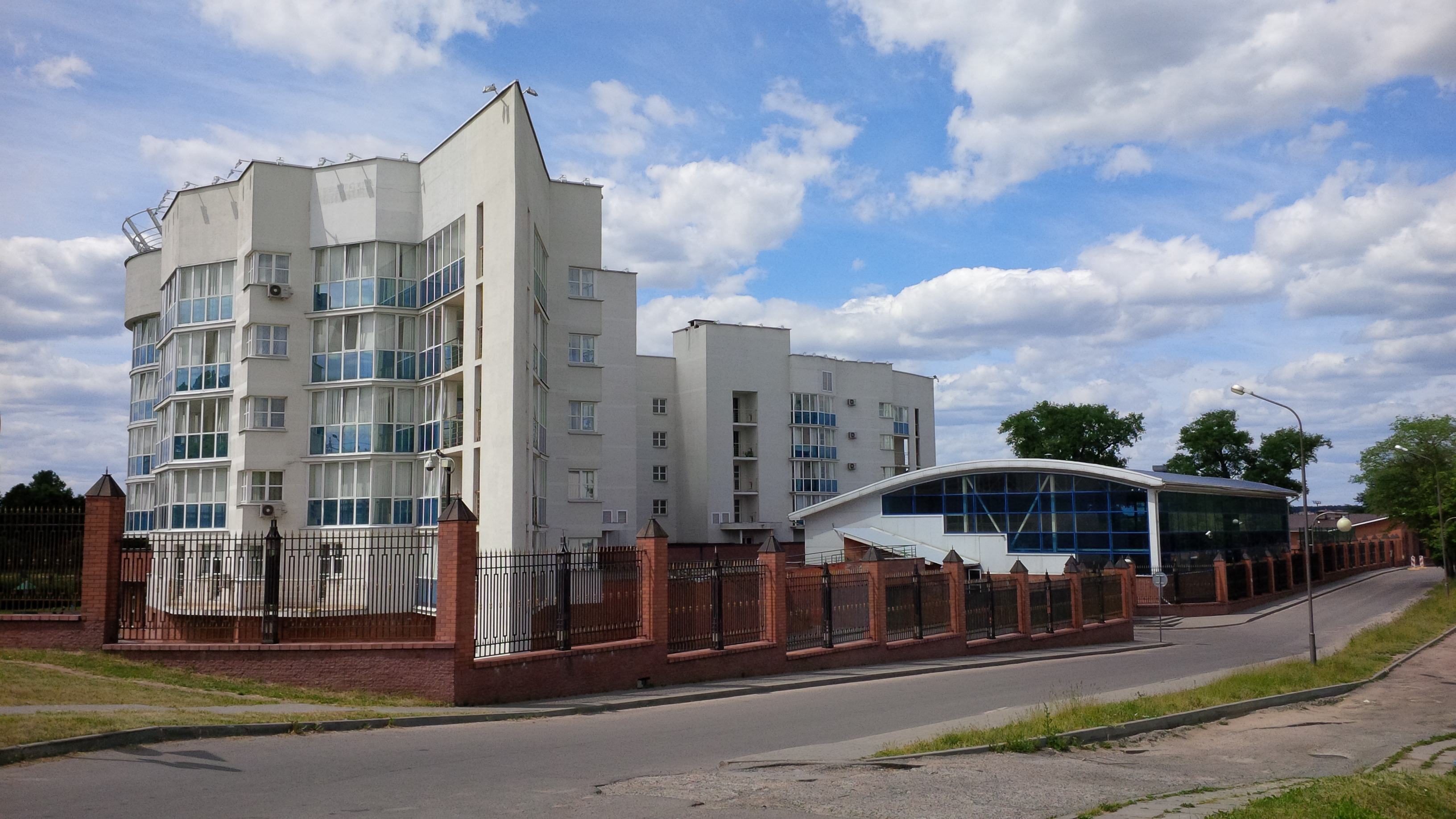 Apartment complex of Russian Embassy in Belarus